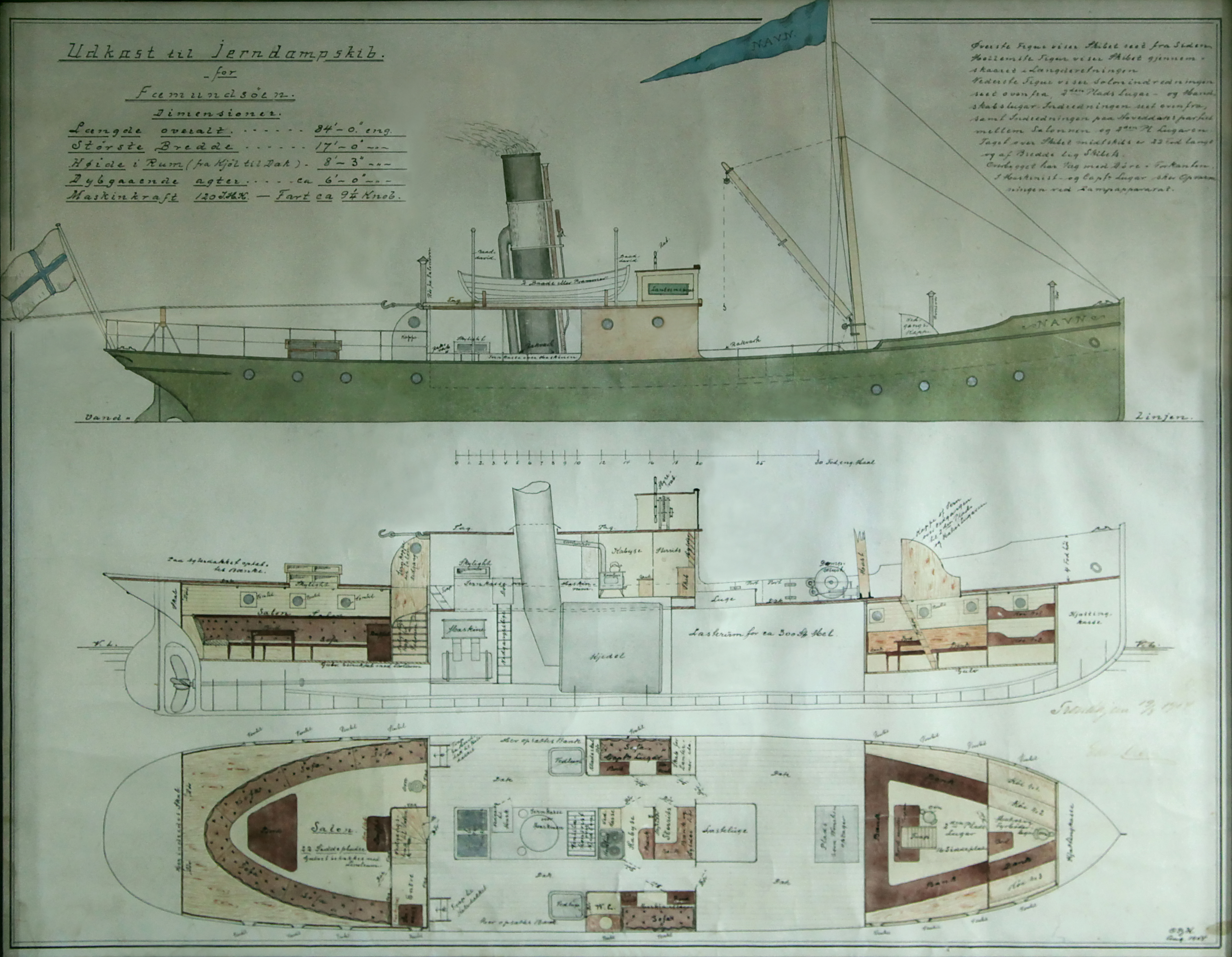 SS Faemund II, Engineering Drawing